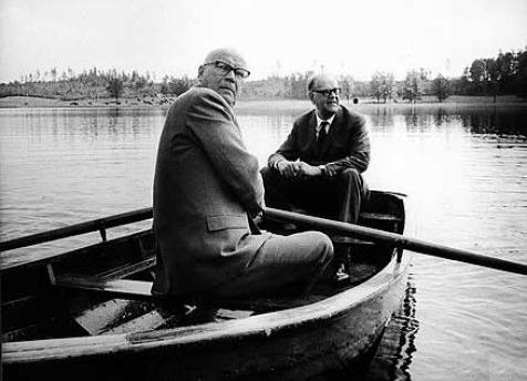 President of Finland Urho Kekkonen and Prime Minister of Sweden Tage Erlander in the rowing boat "Harpsundsekan" at the Swedish country residence Harpsund.